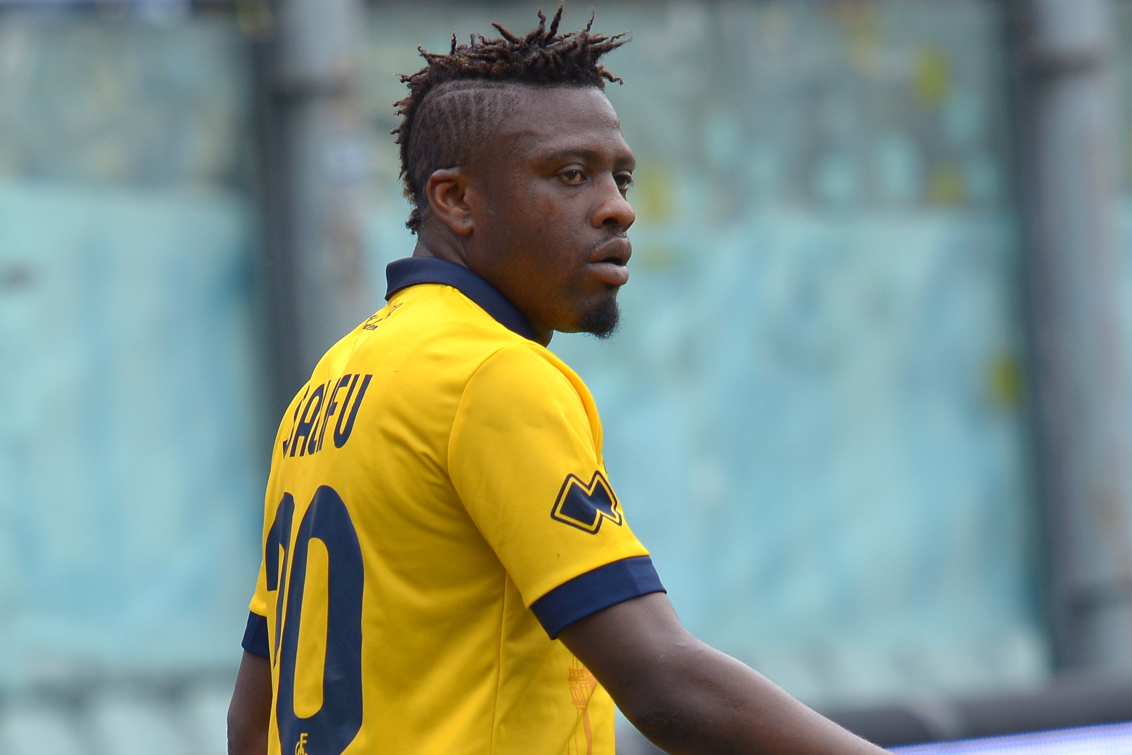 Amidu Salifu in action during the match Modena versus Ternana